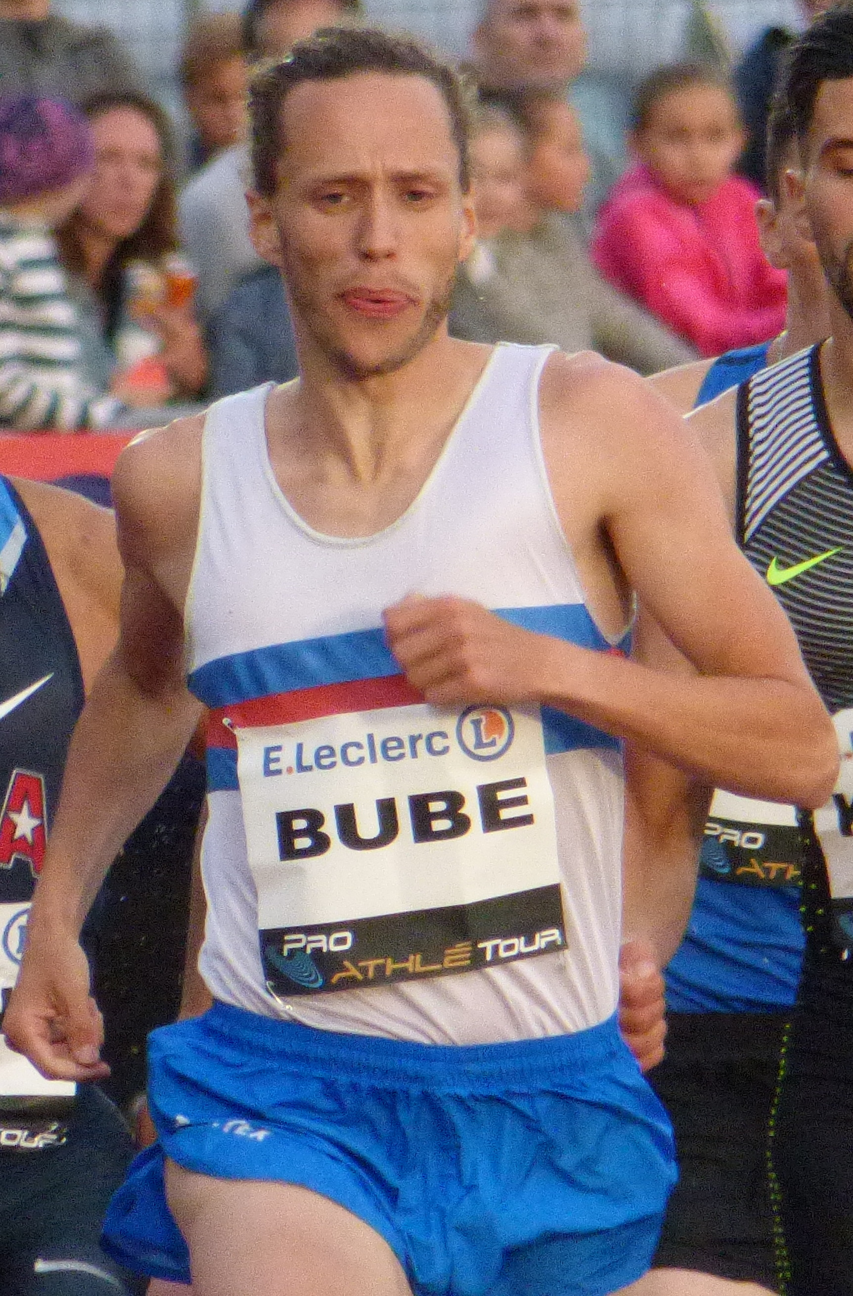 2017 Meeting Stanislas